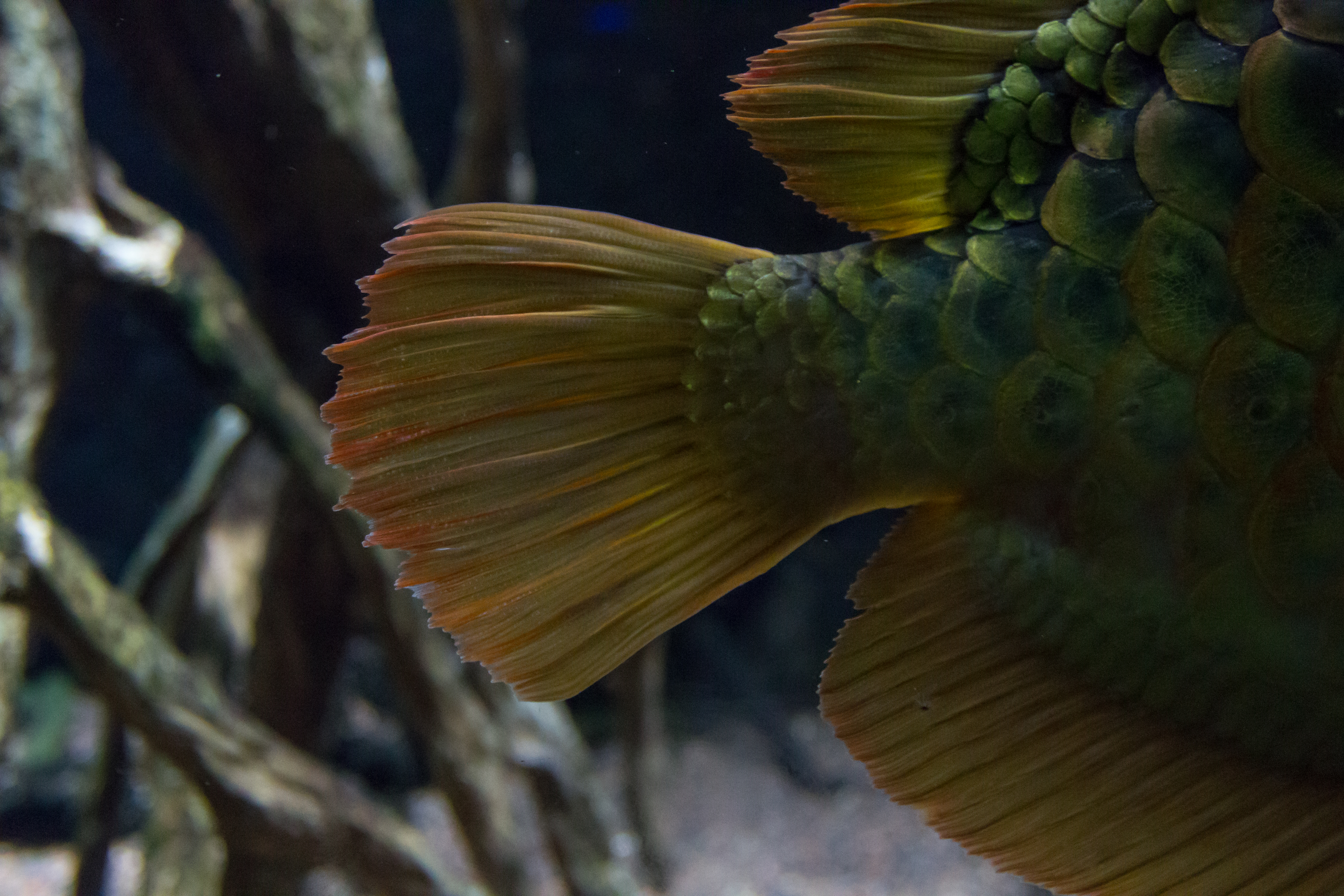 Scleropages formosus